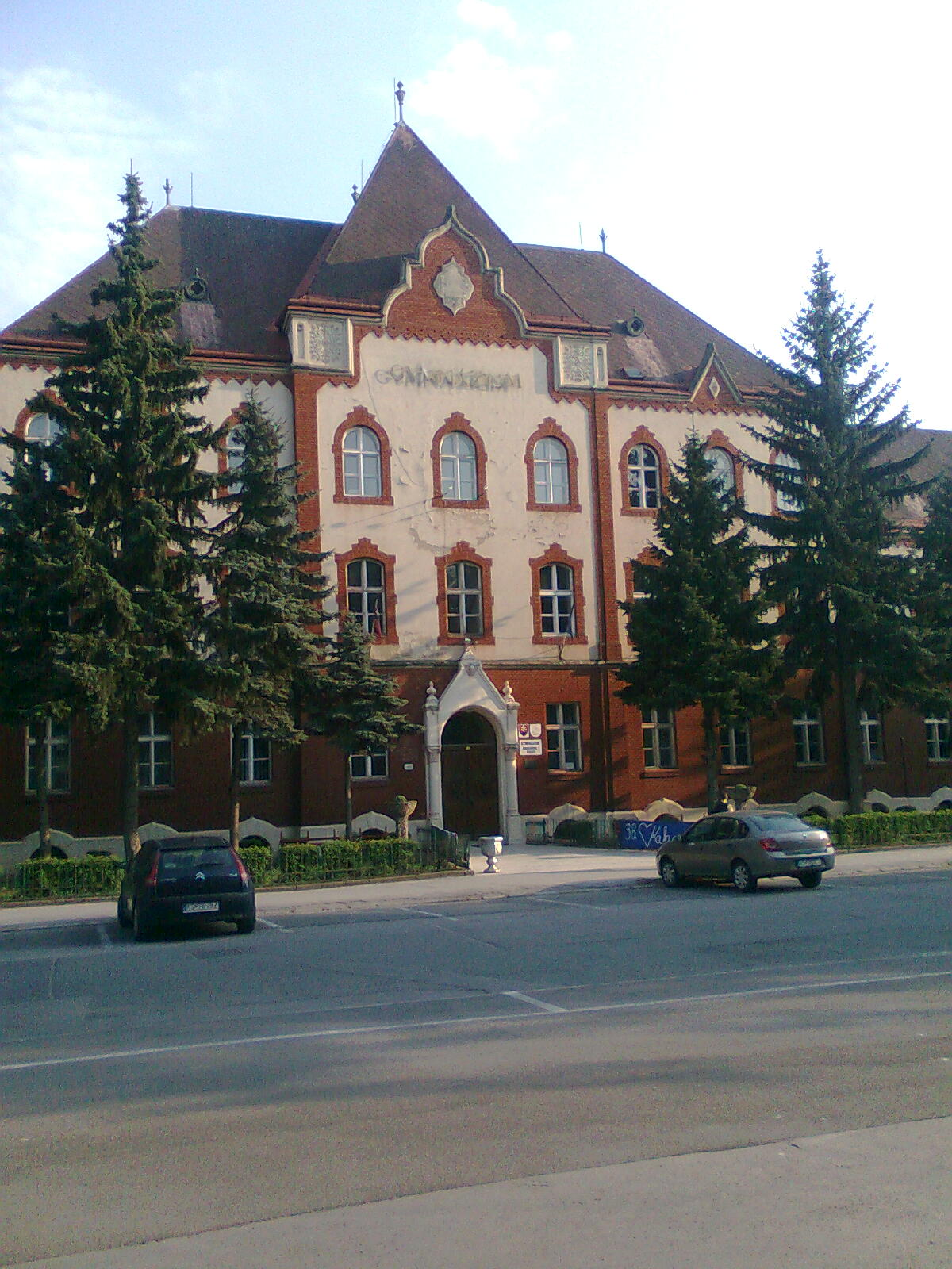 Gymnasium on Srobarova street in Kosice, Slovakia